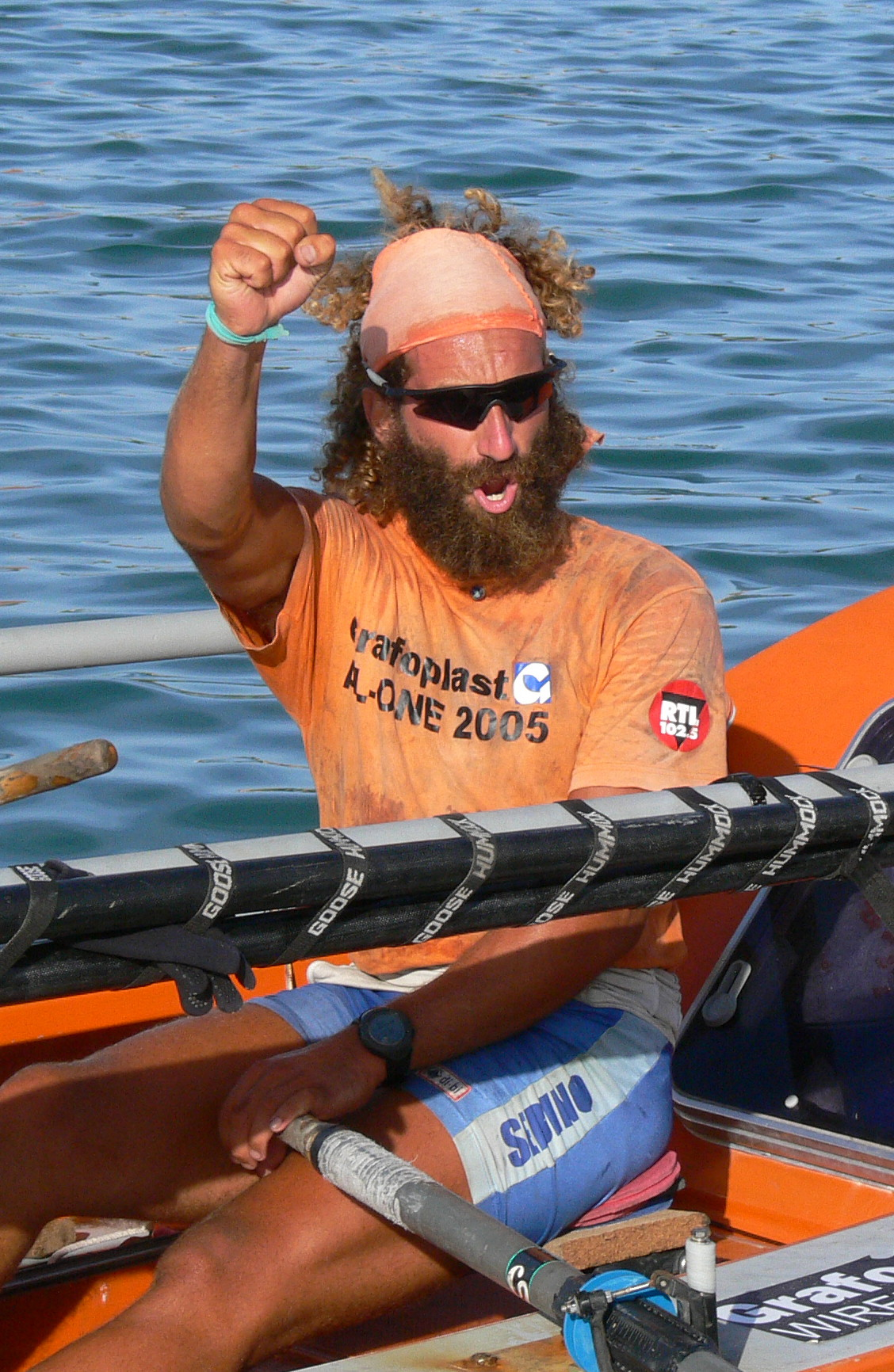 Alex Bellini on his arrival to Fortaleza after have completed the rowing across Atlantic ocean. May 2nd 2006